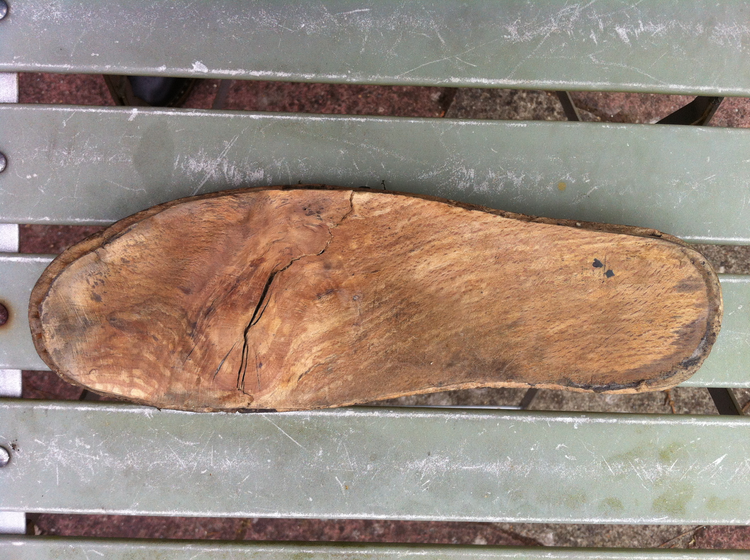 The sole of a typical English clog made by Walkeys in Yorkshire.